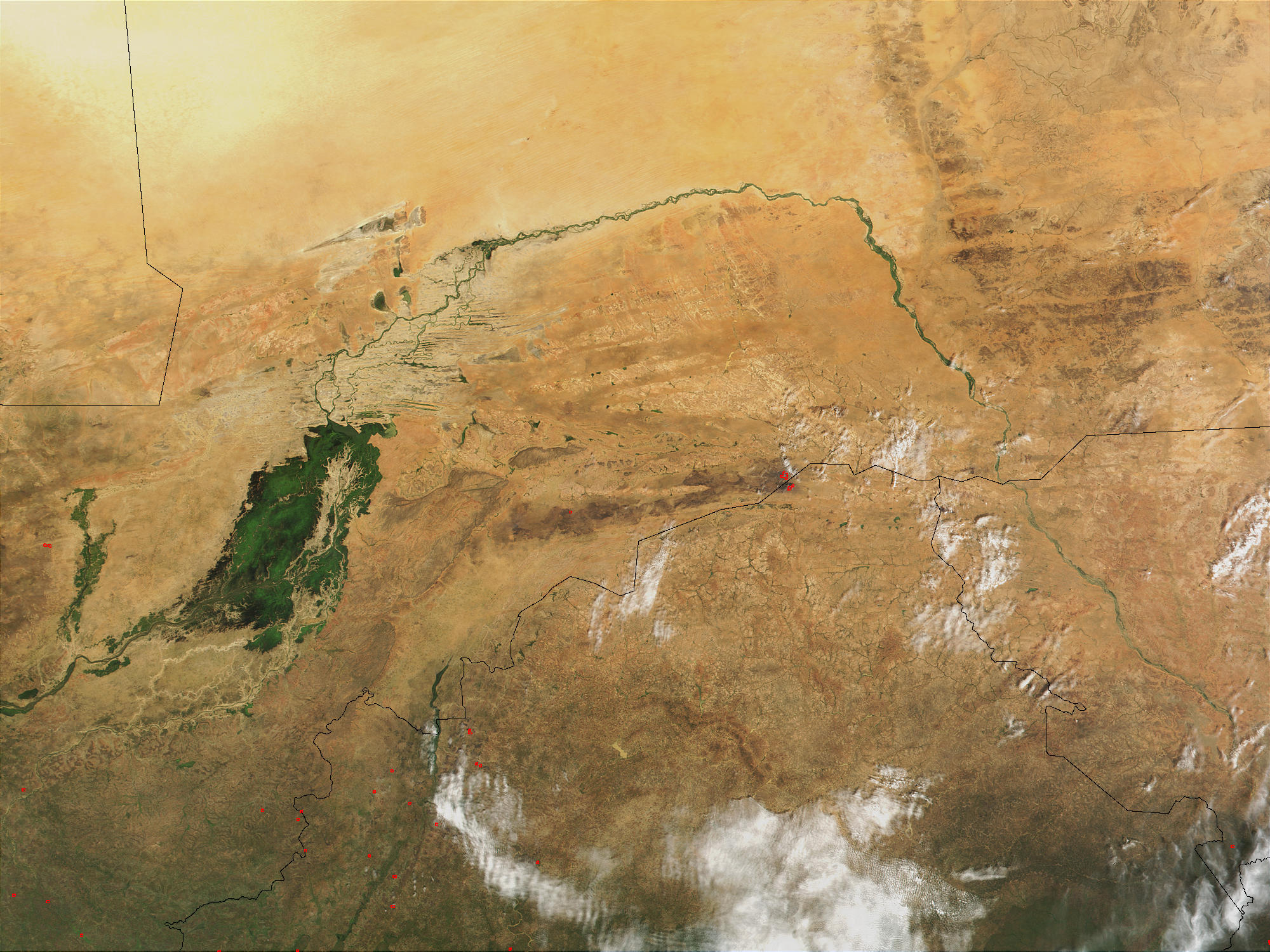 NIGER RIVER IN MALI October 18, 2001